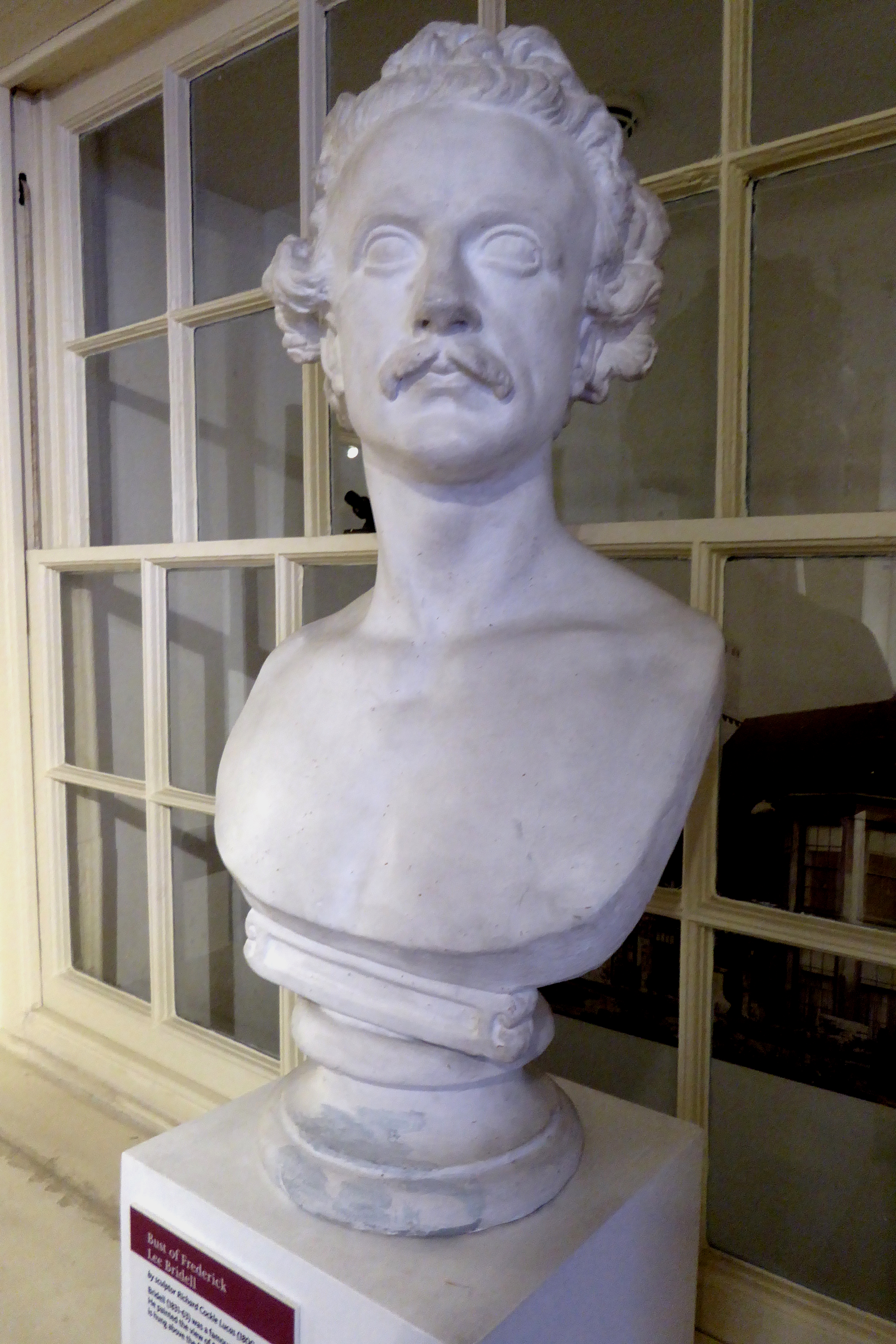 The bust of the painter Frederick Lee Bridell on display in Tudor House, Southampton. Created by the sculptor Richard Cockle Lucas in the nineteenth century.